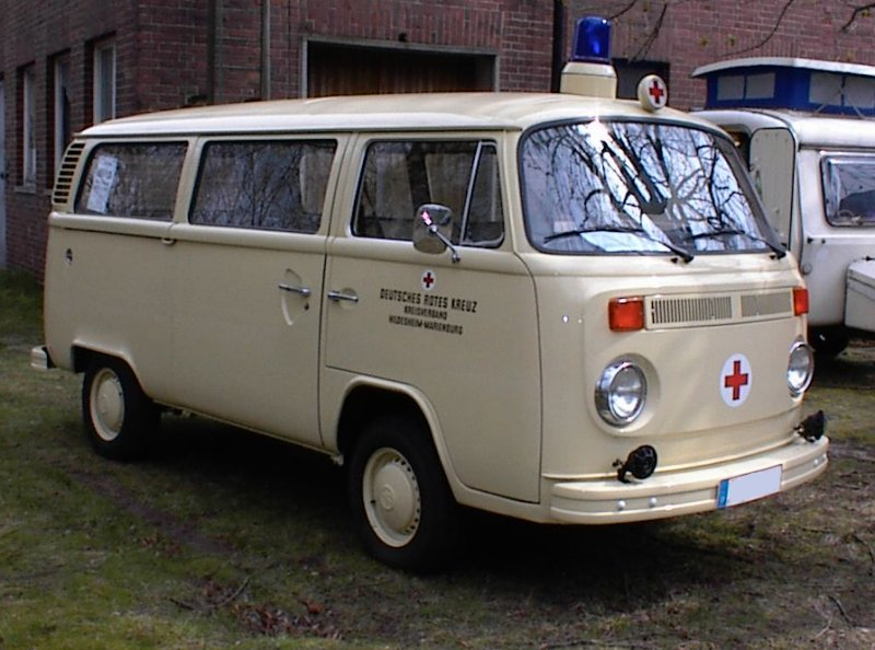 Volkswagen Type2 T2b Ambulance. Late 1970s Volkswagen Type 2 Ambulance.